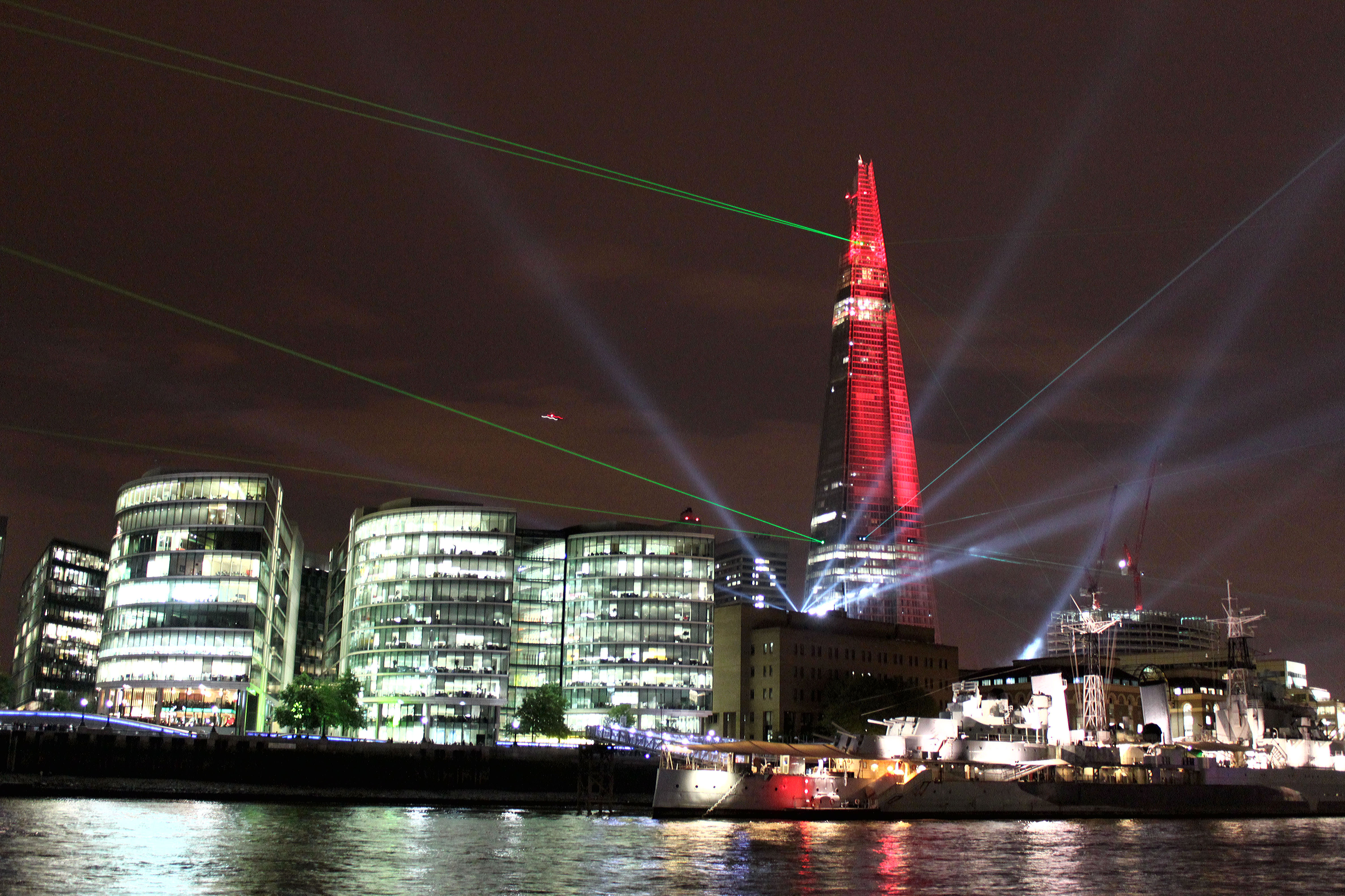 Laser show display at the inauguration ceremony of The Shard.